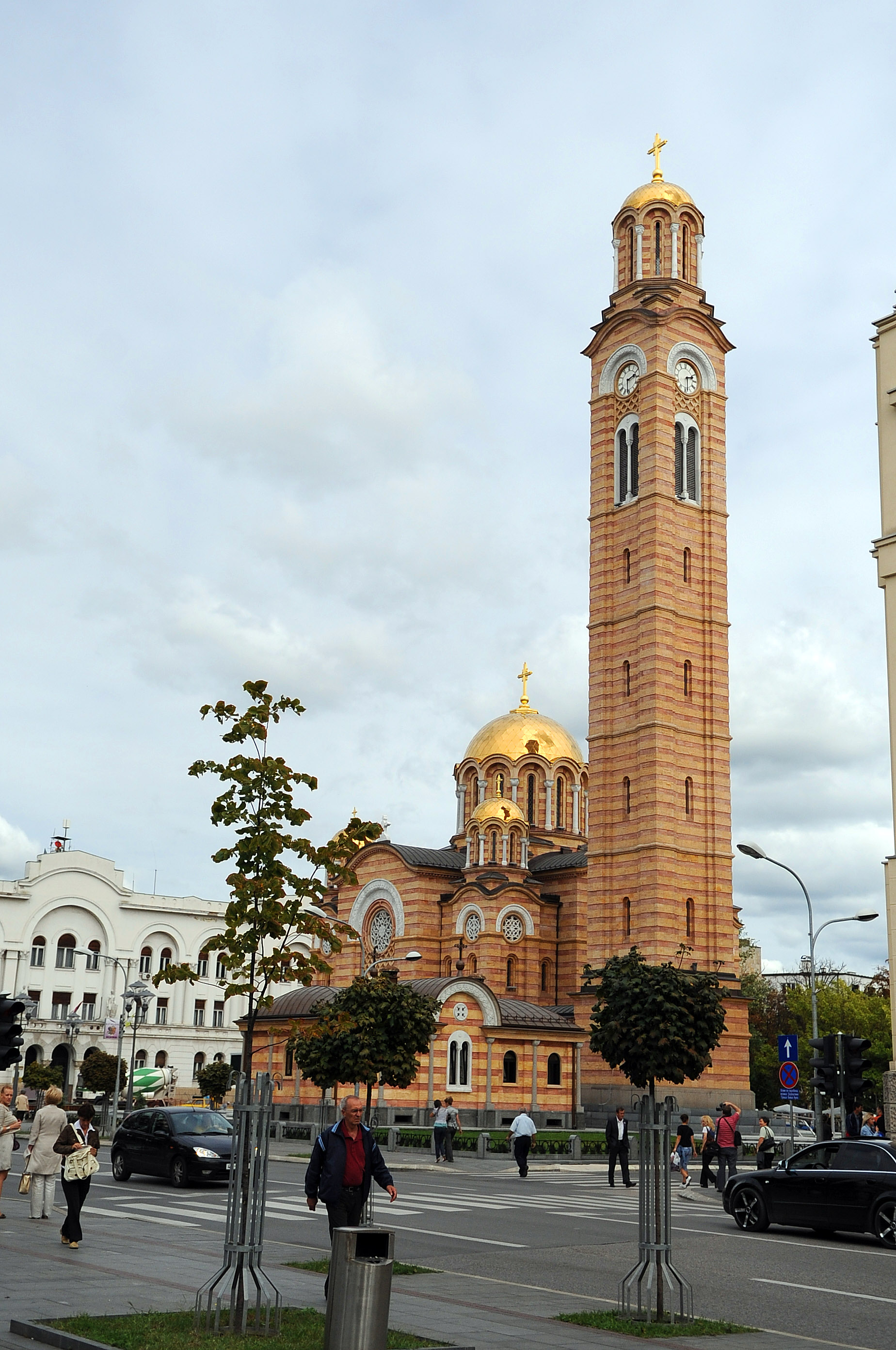 Serb Orthodox church Hram Hrista spasitelja in Banja Luka.